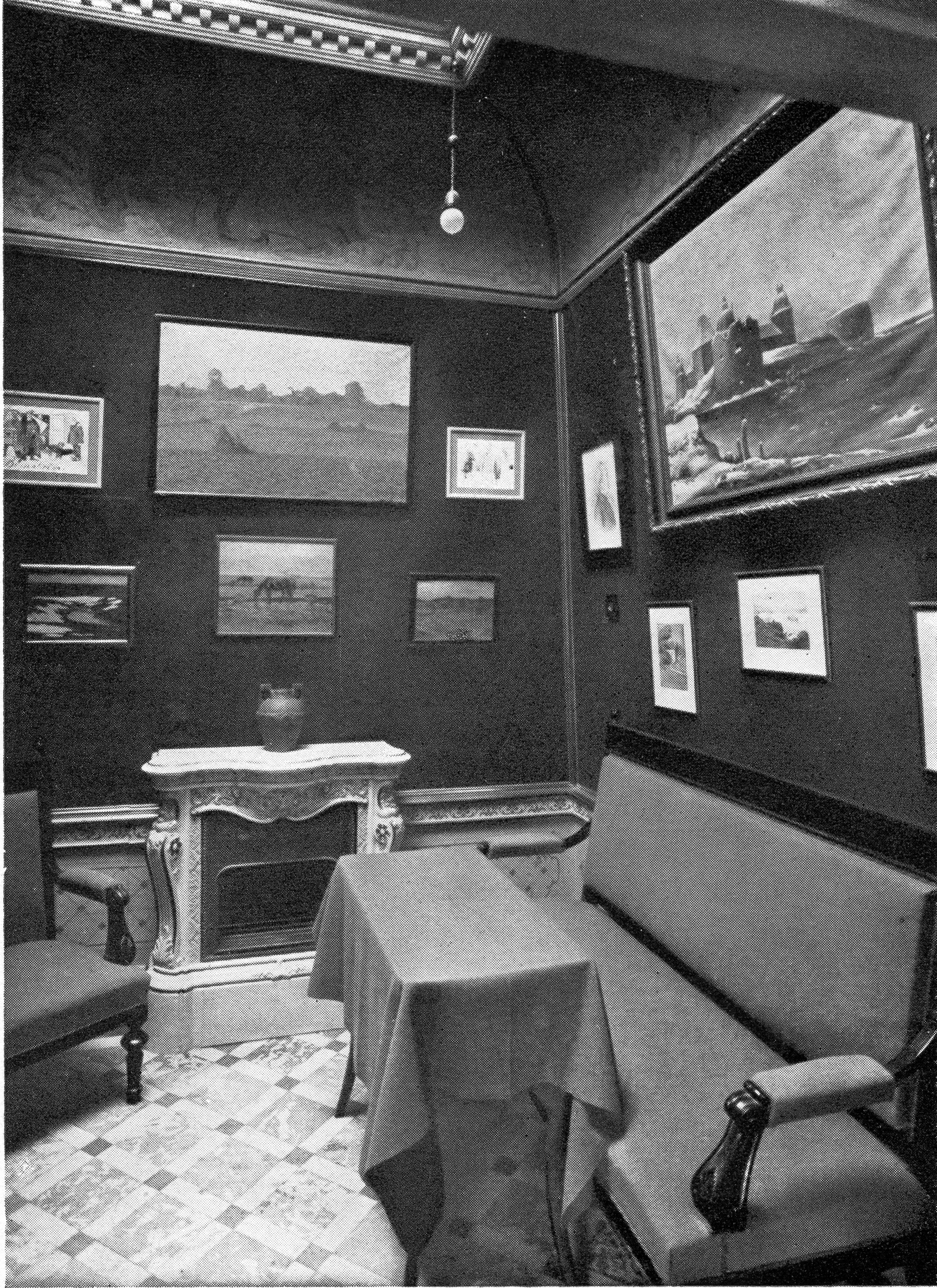 Kalmar Nation, Uppsala. First house 1913-1957. Red room 1915.